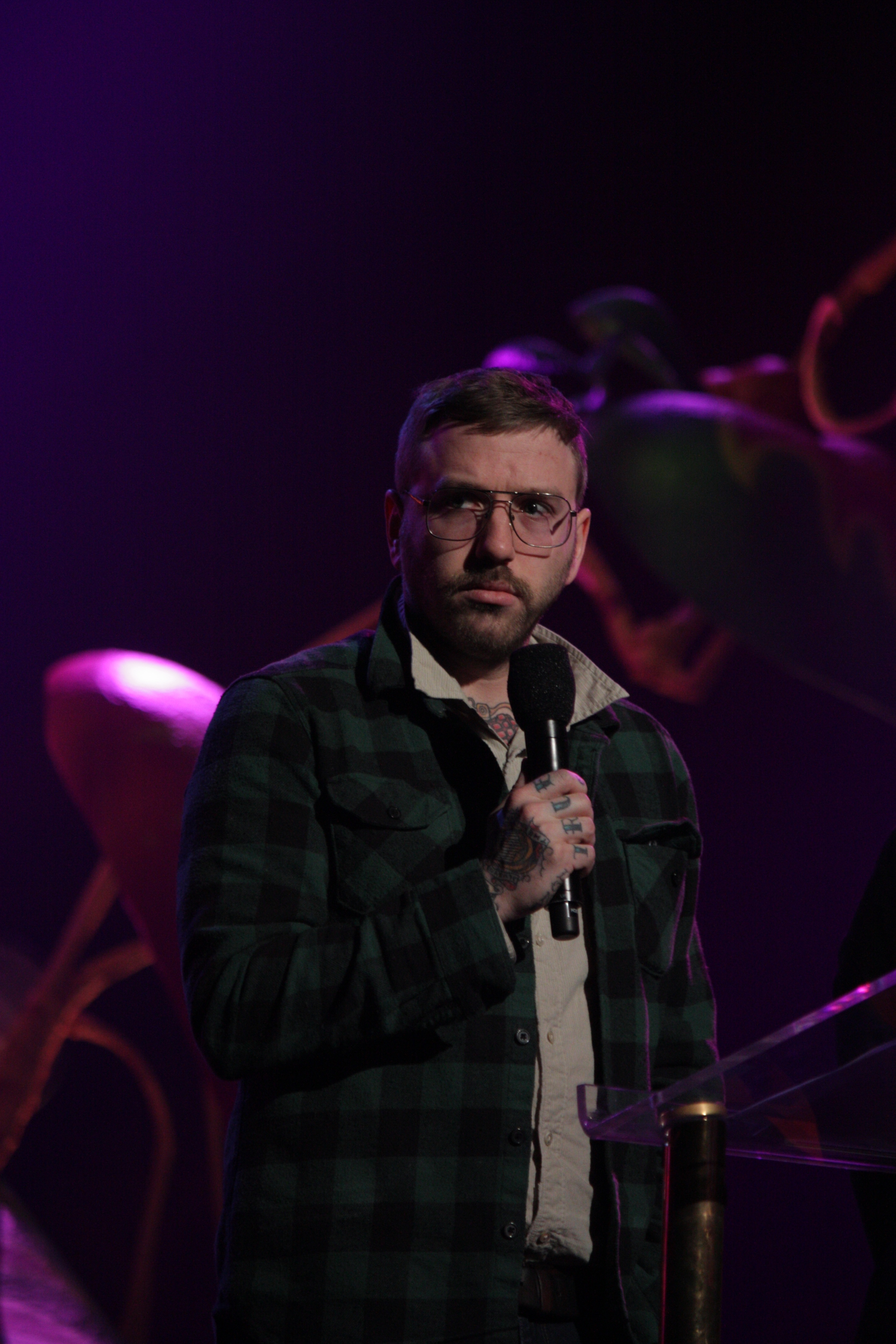 /City and Colour